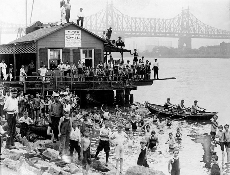 "Scene at one of the docks of the East River, New York, where those for whom the journey to the beaches is too long or too expensive forget the sweltering heat of August in the cool waters."